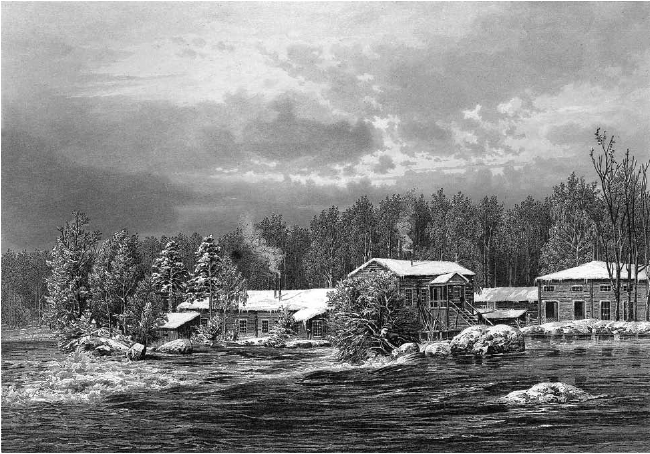 Warkaus ironworks, by Hjalmar Munsterhjelm.